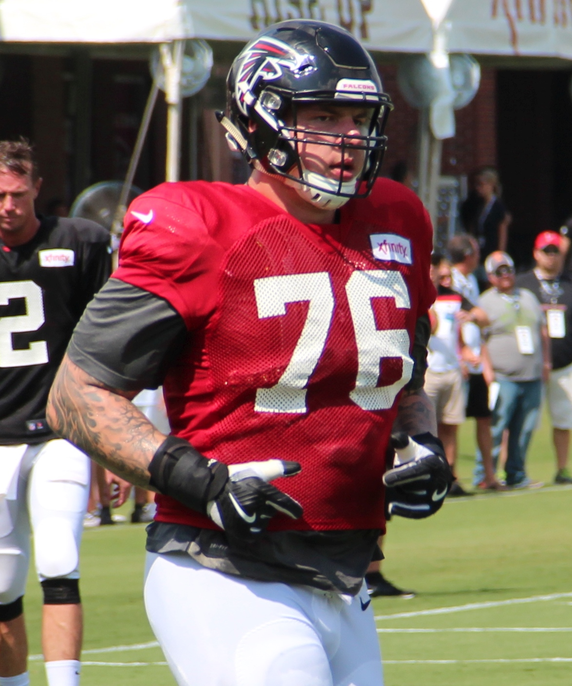 Tom Compton at Falcons training camp, 2016